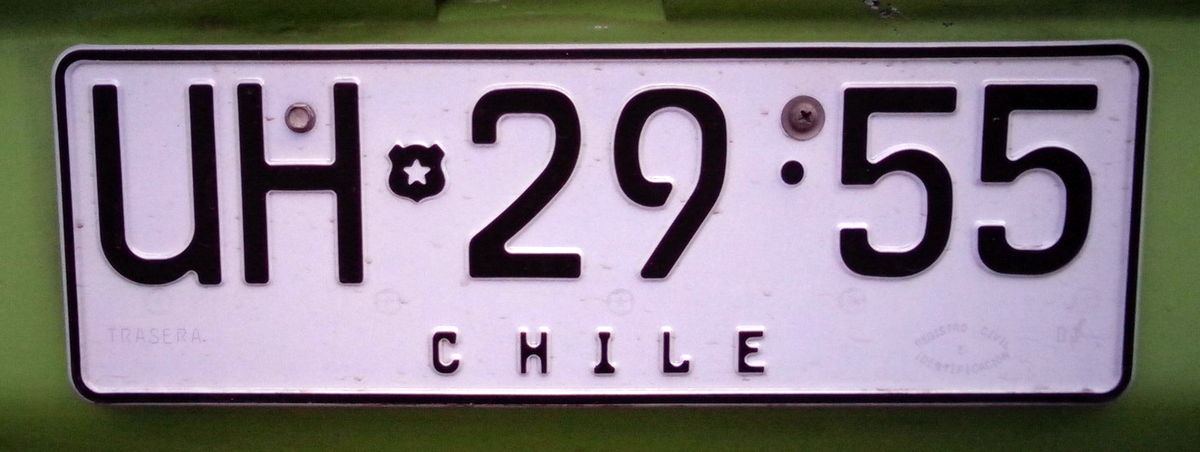 Chilean registration plate in format 3: particular with new font